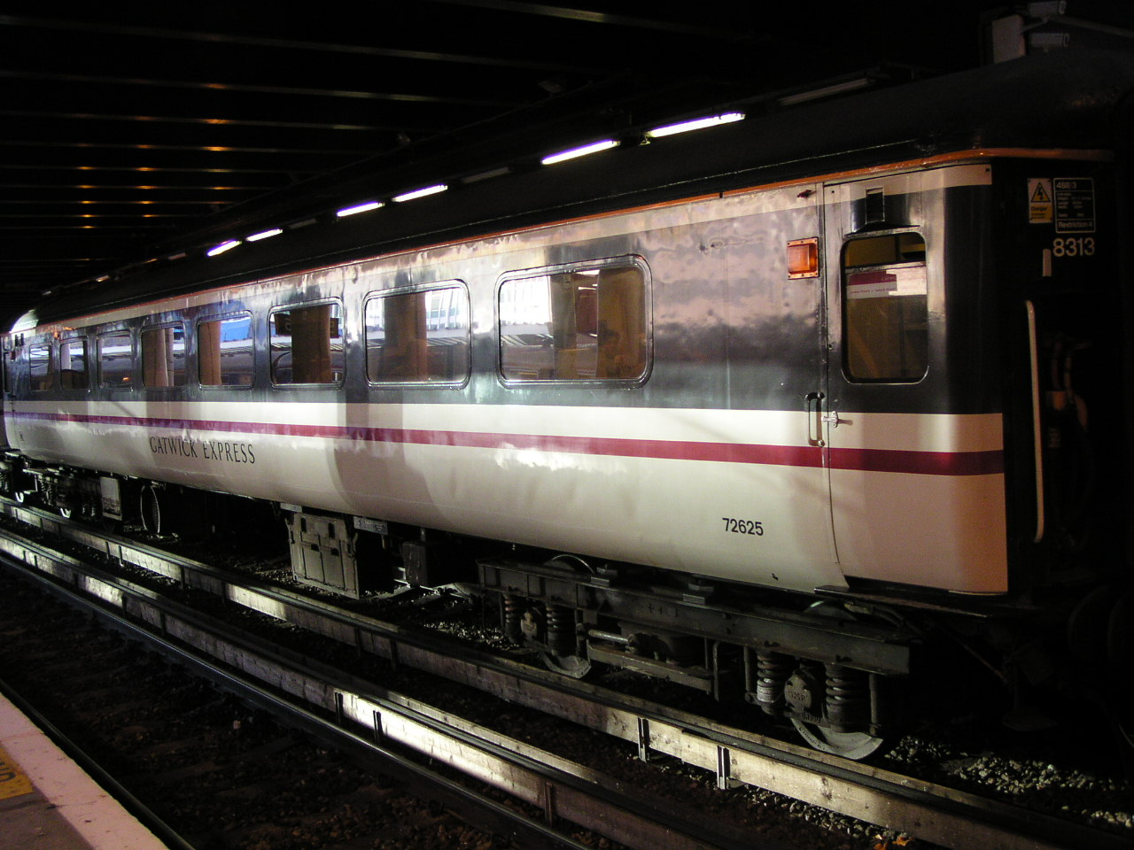 BR Class 488/3, no. 488313 at London Victoria on 18th March 2003. This was one of the last six sets in service with Gatwick Express until its withdrawal in 2004. Image by Phil Scott (Our Phellap)